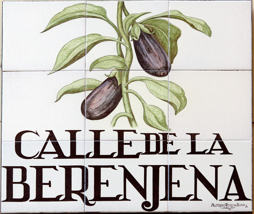 Sign of Calle de la Berenjena (street, Centro district) in Madrid (Spain).